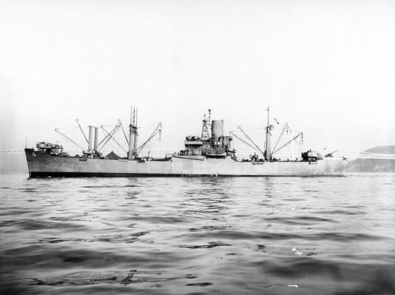 Broadside view of USS Aldebaran (AF-10) in San Francisco Bay, 3 October 1943. Navy Yard Mare Island photo # 6893-43.